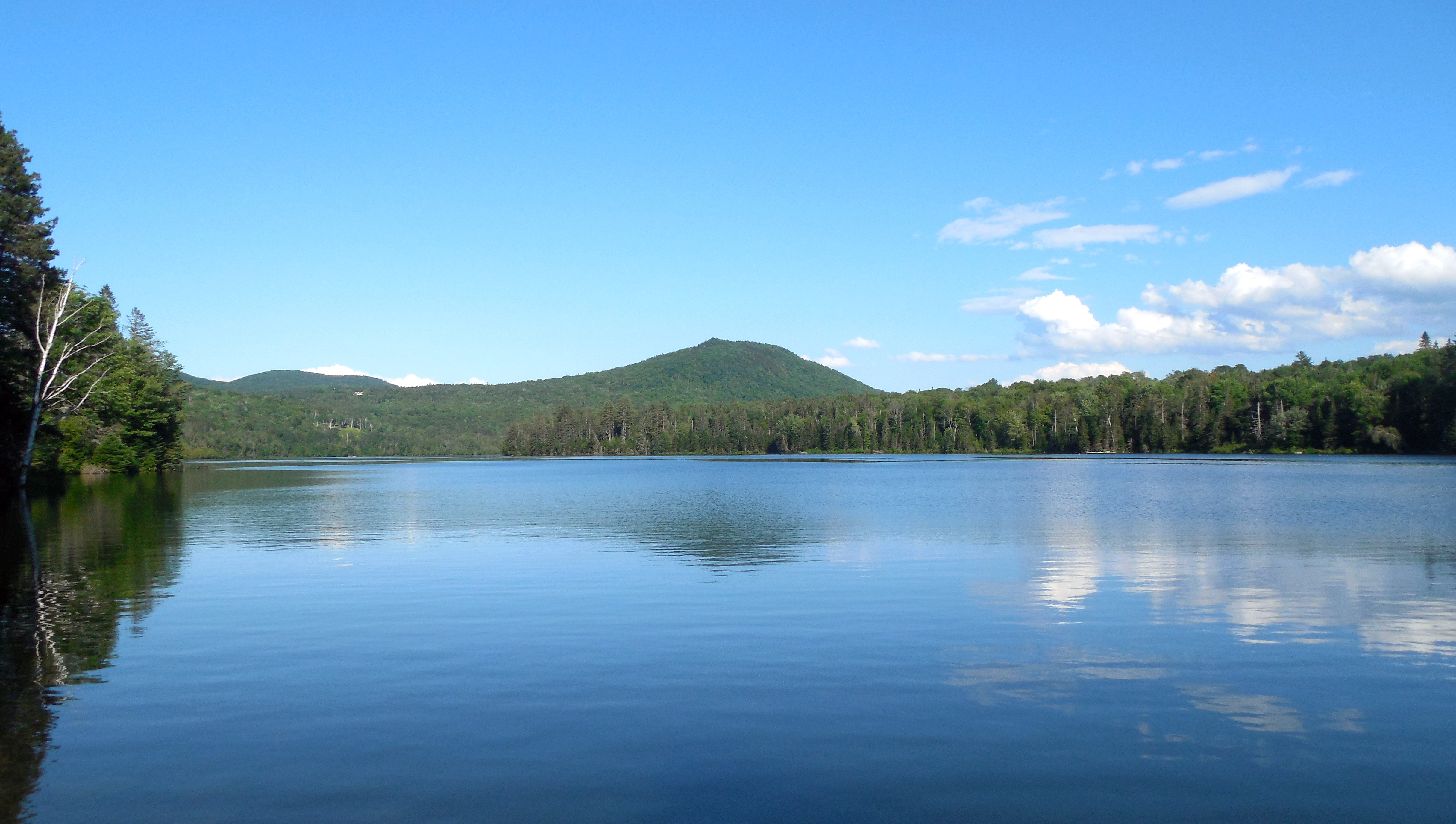 Molly's Falls Pond (Marshfield Reservoir) in Cabot, Vermont looking eastward toward Hooker Mountain, June 2017